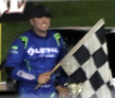 Midwest Truck Series winner Todd Kluever in victory lane at Jefferson Speedway.